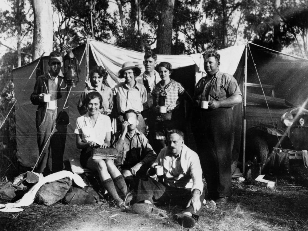 On a camping trip at Binna Burra, ca. 1935 The woman standing in the centre wearing a hat is Madge Clelland and the gentleman to her left in the centre is her husband Wally Clelland. The gentleman on the right holding a cup is Daniel Topp. (Description supplied with photograph).